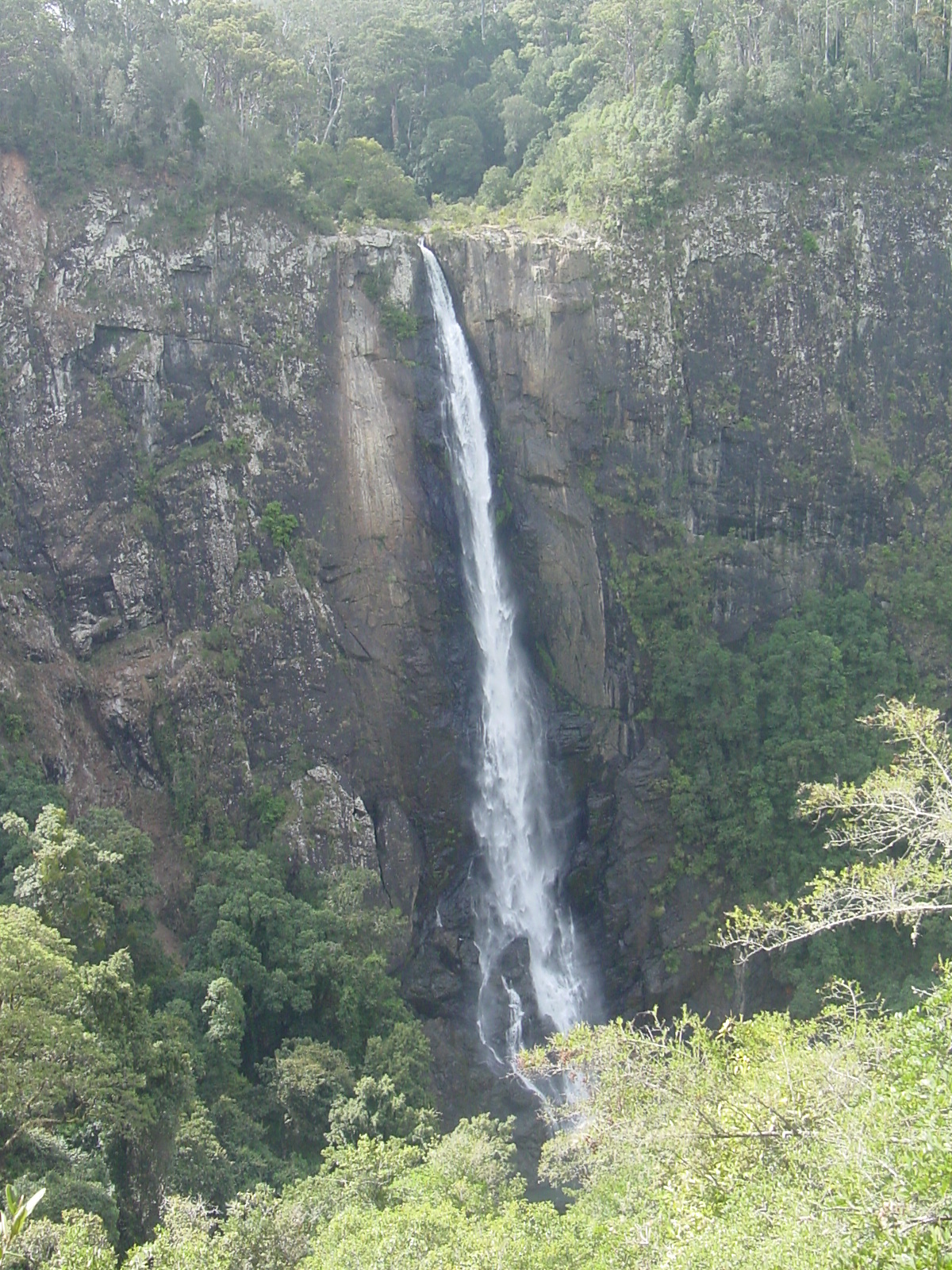 photo of falls